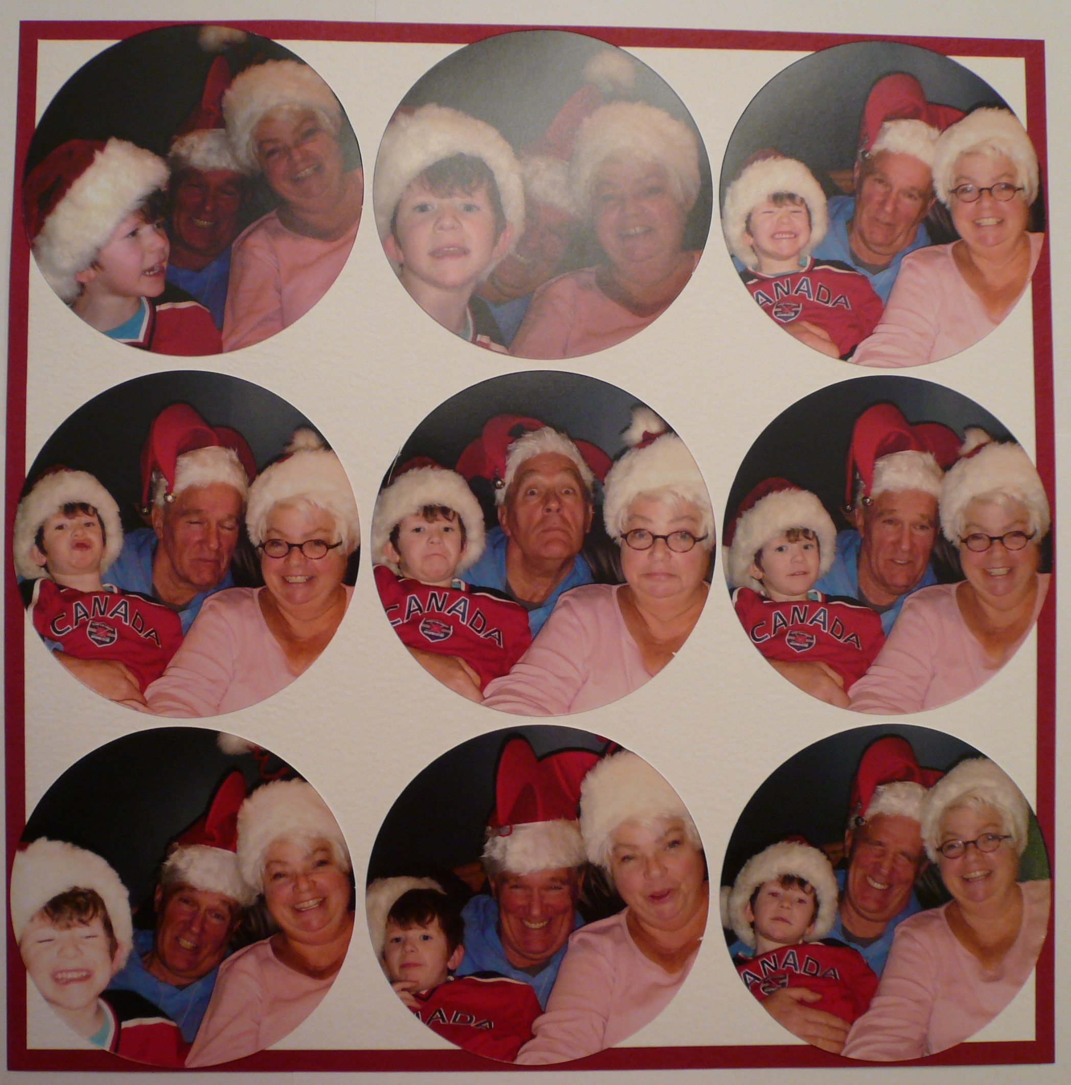 These pictures are a sampling of the scrapbook pages Adrian has been making.